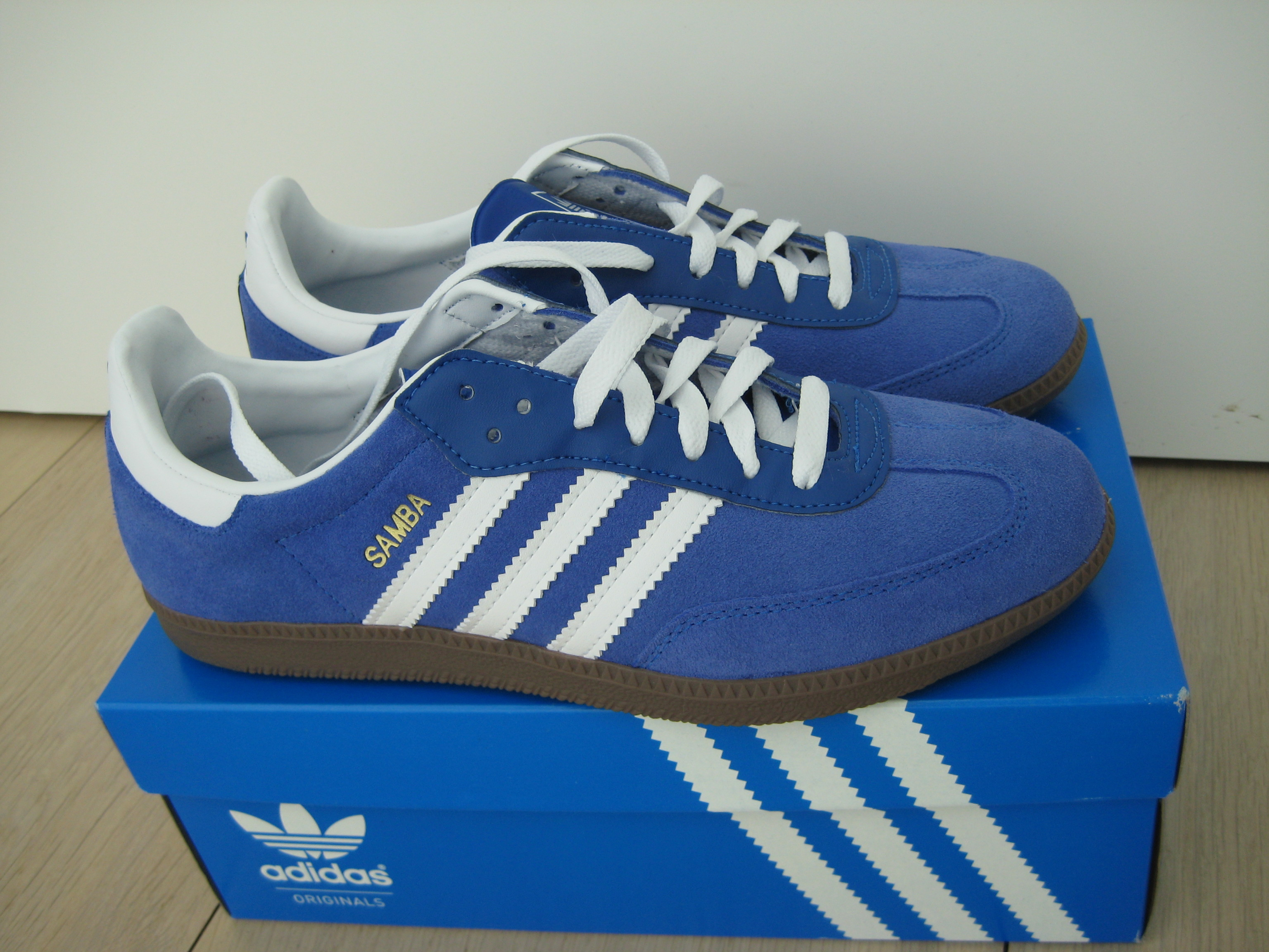 new blue suede Adidas Samba trainers